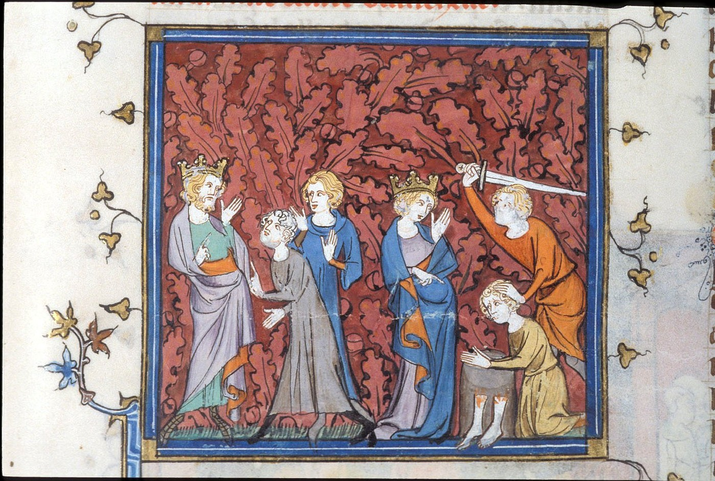 Detail of a miniature of a poor man warning Guntram, and Fredegunda ordering the mutilation of Olericus (i.e. clericus), at the beginning of chapter 23 of book 3.